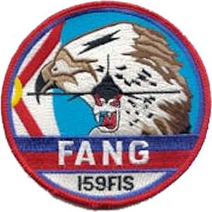 Emblem of USAF 159th Fighter-Interceptor Squadron (ADC) Florida Air National Guard